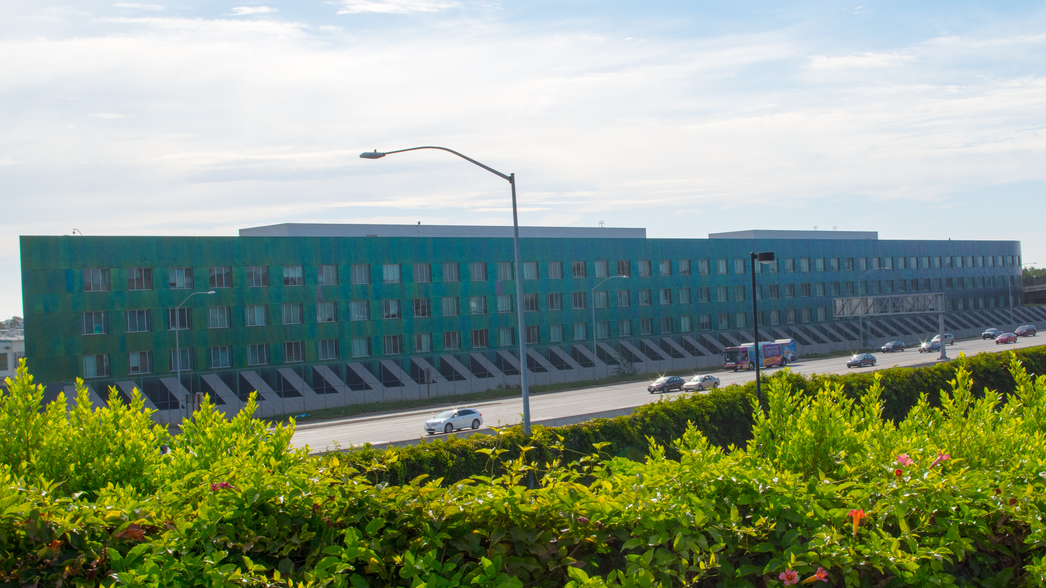 Team Disney Anaheim, the administrative headquarters of the Disneyland Resort, architected by Frank Gehry.